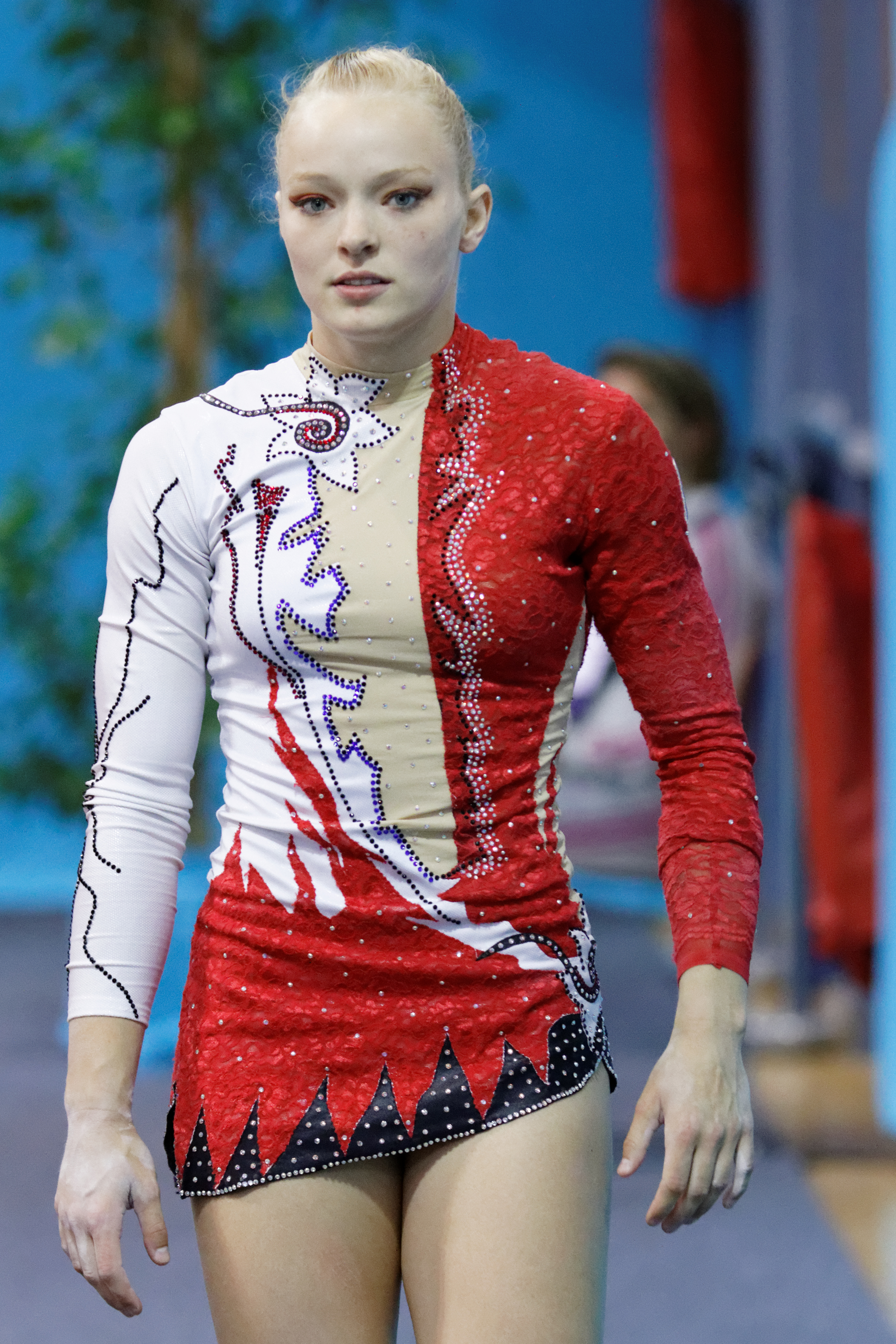 2014 Acrobatic Gymnastics World Championships, 10th-12 July, Levallois-Perret, France. Qualifications : women pair (combined). Belgium.